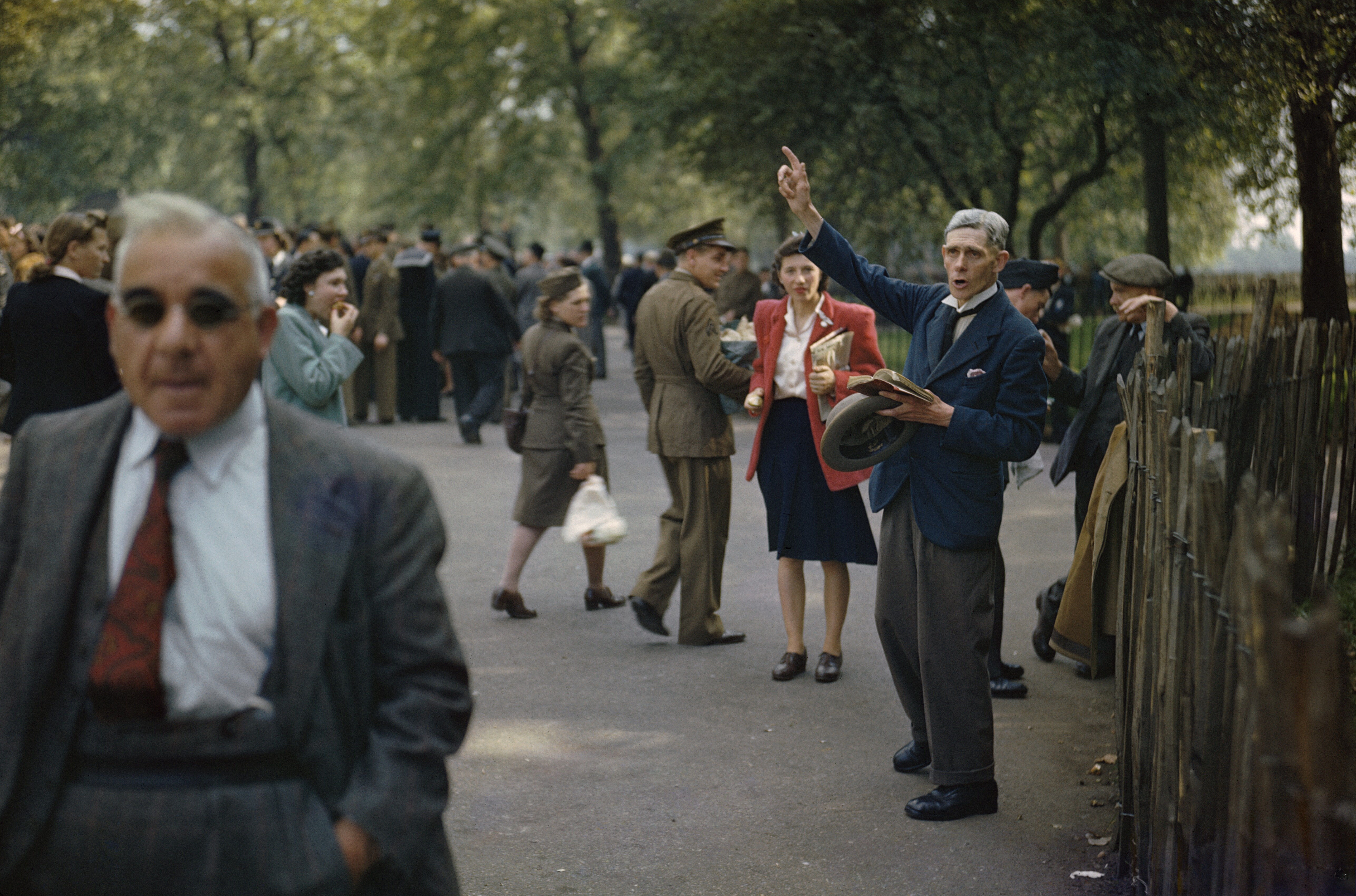 The Home Front in Britain, 1944 A speaker at Speakers' Corner, Hyde Park Corner, London.